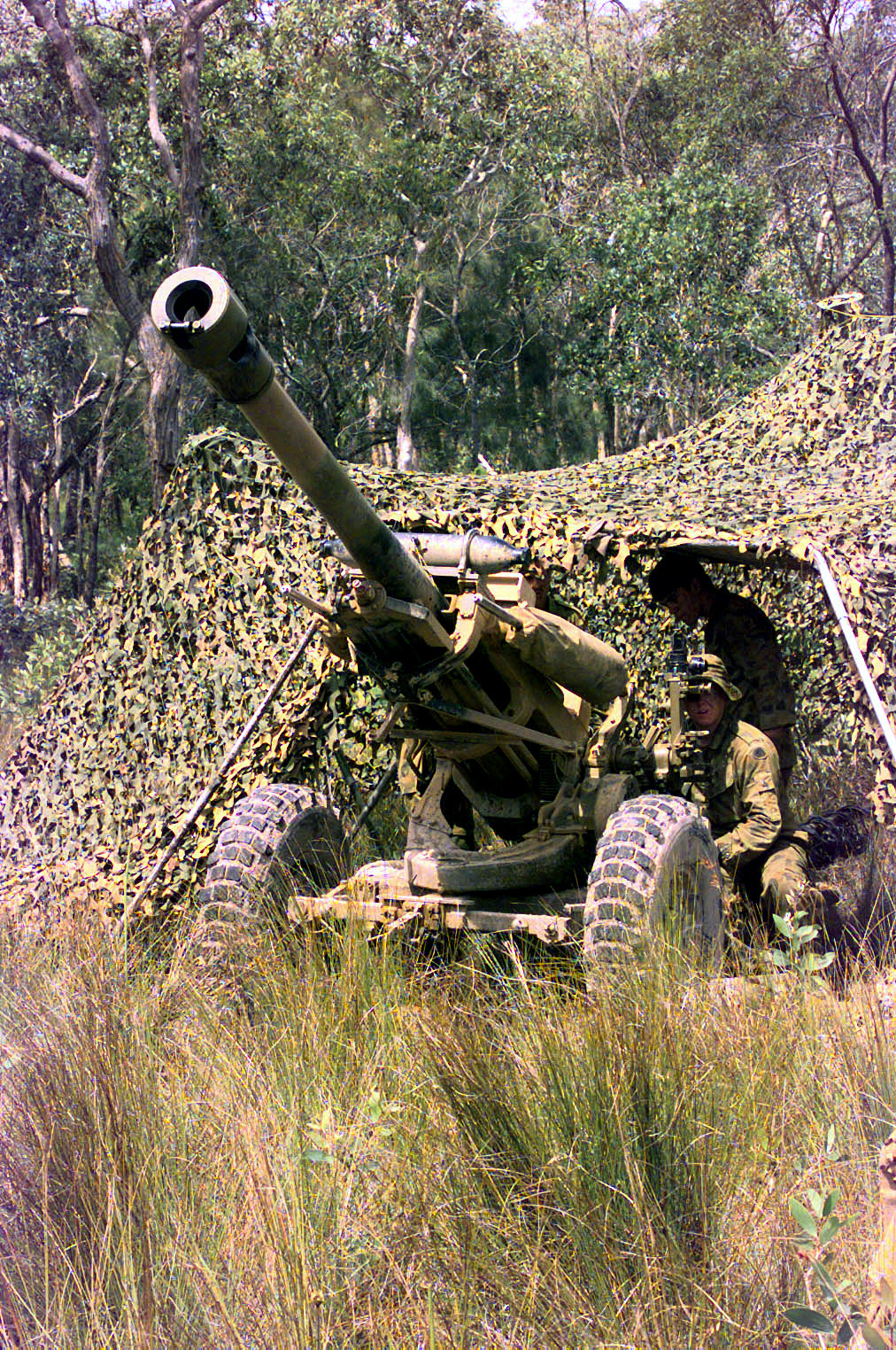 ID: DMSD0104588 Service Depicted: Other Service 991007M1573L005 Operation / Series: CROCODILE `99 Troops from the Australian Army's 1st Field Regiment, 104th Field Battery, aim a 105mm towed Howitzer L119A1 down range in the Shoalwater Training Area, Queensland, Australia in support of exercise Crocodile '99. Location: SHOALWATER BAY TRAINING AREA, QUEENSLAND AUSTRALIA (AUS)